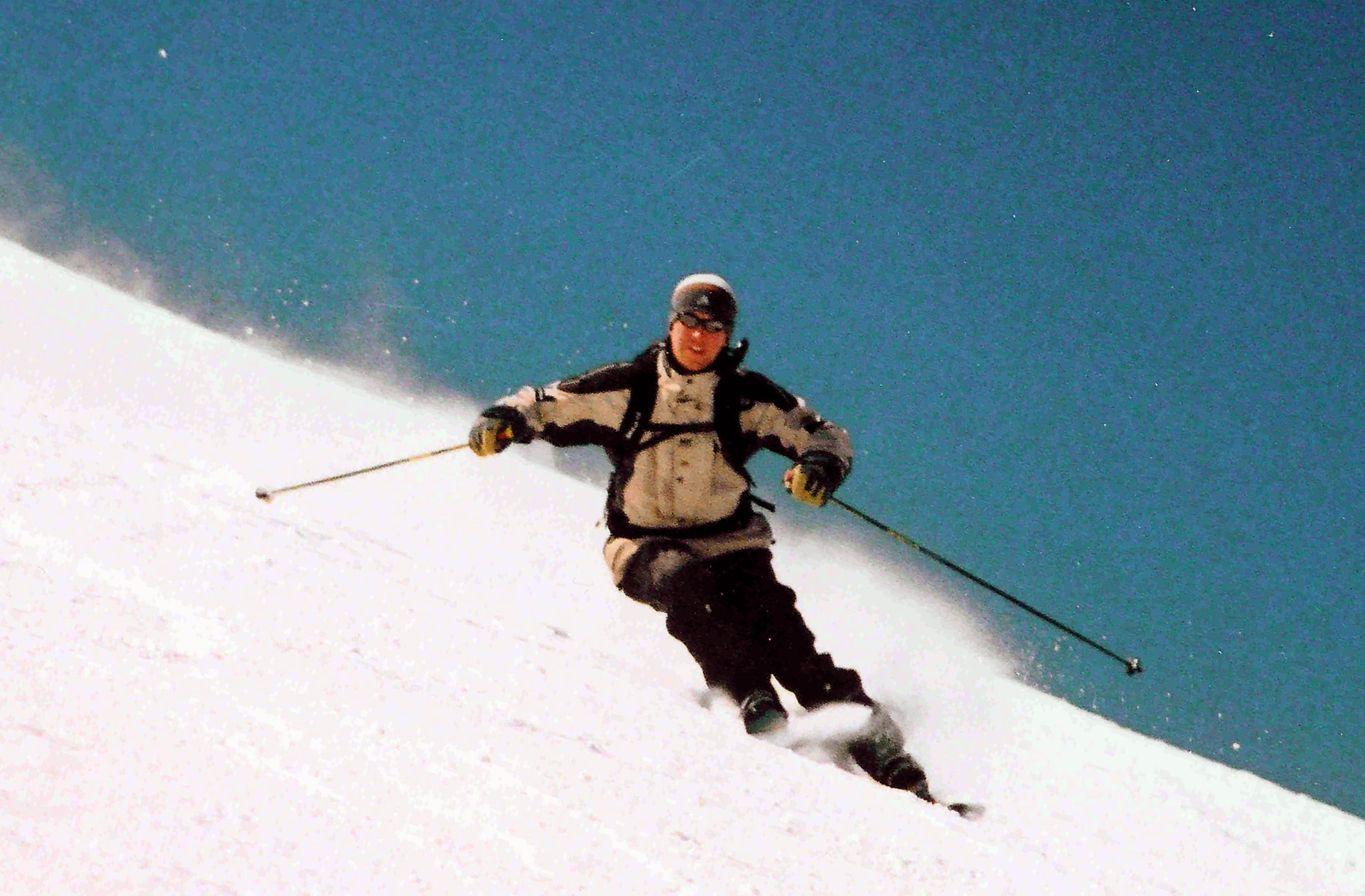 Skier carving a turn off piste